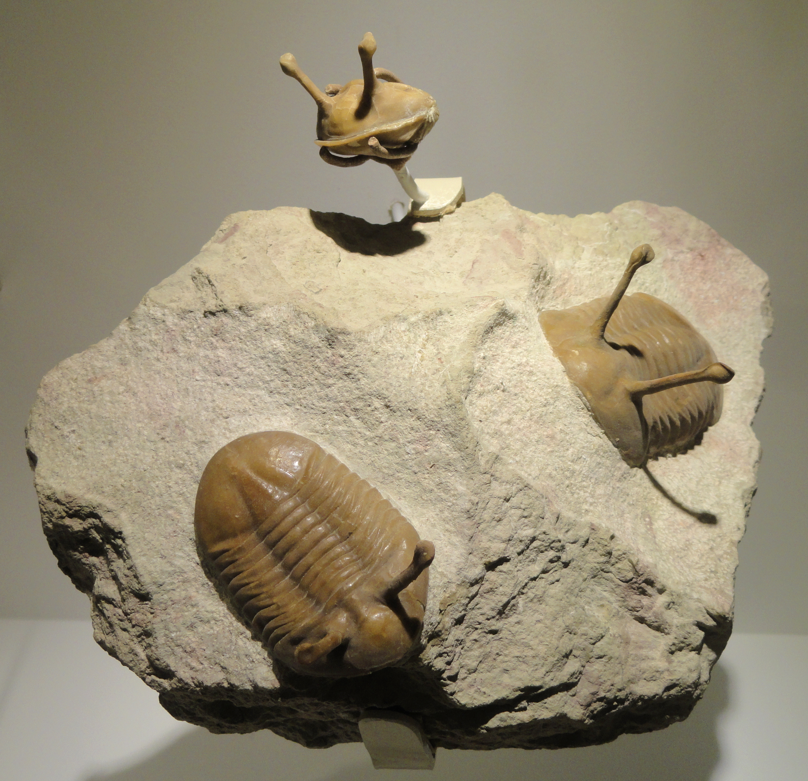 Exhibit in the Houston Museum of Natural Science, Houston, Texas, USA.